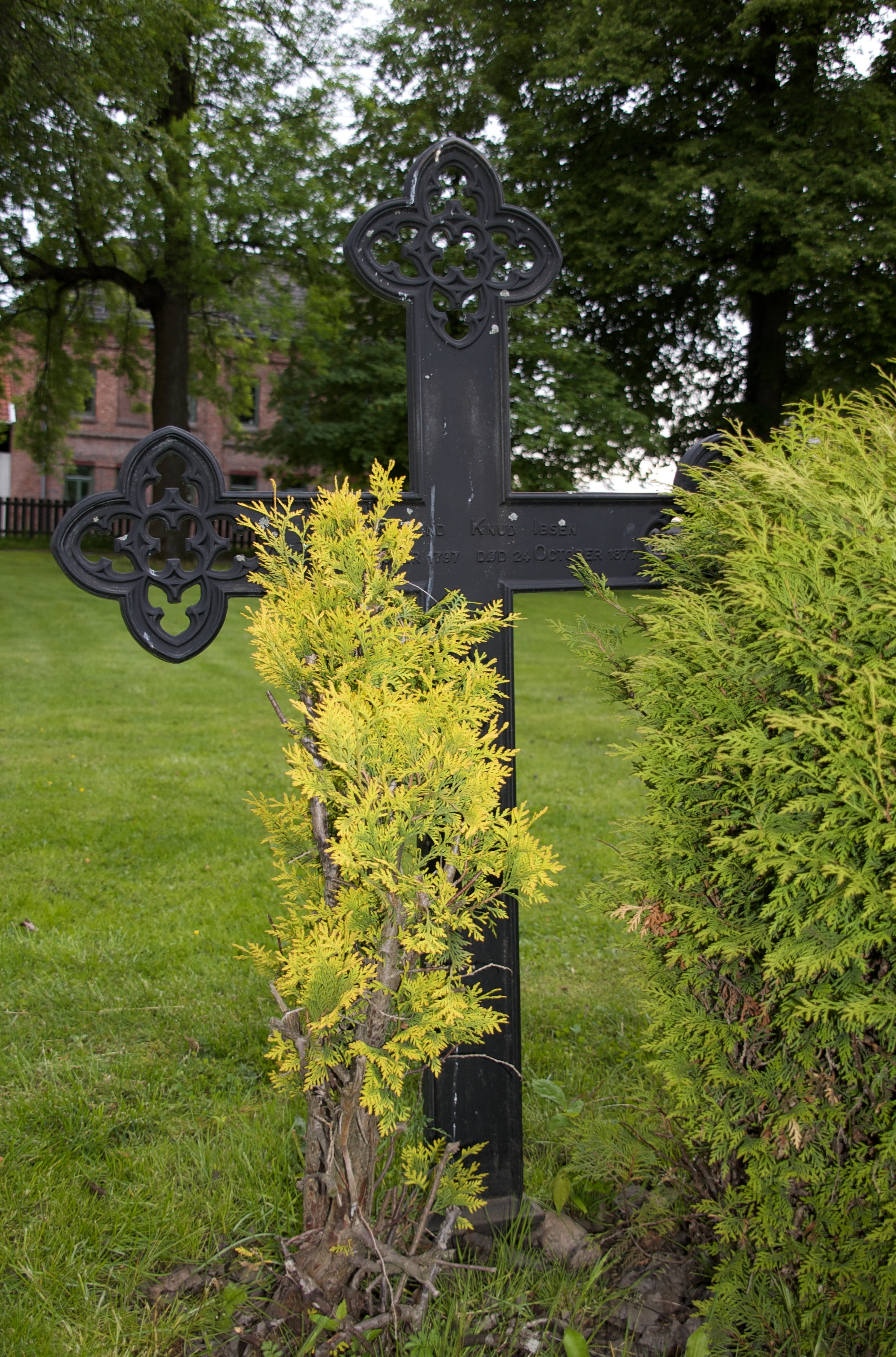 Headstone for Knud Ibsen, father of Henrik Ibsen. Located in Skien, Norway.